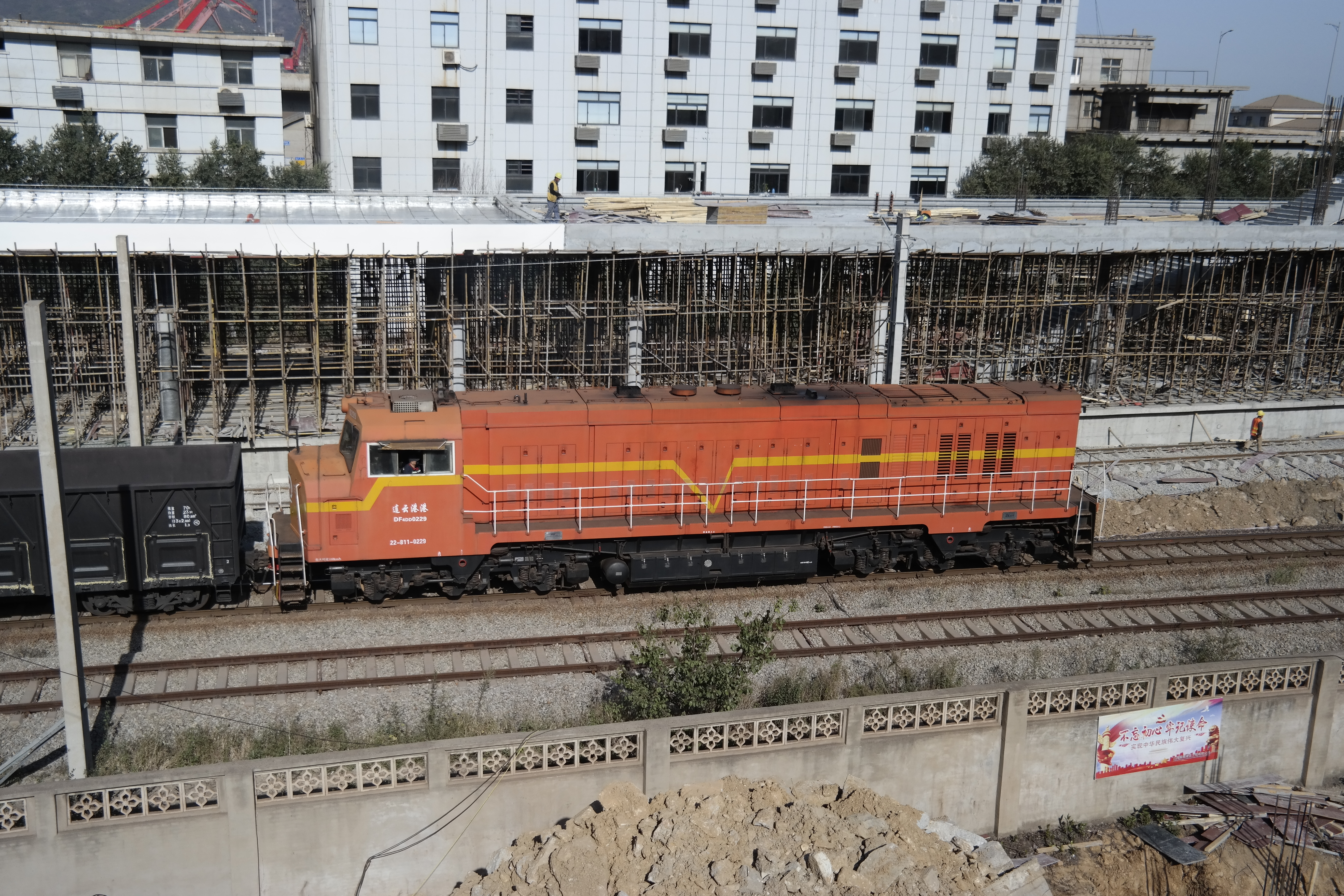 Lianyun Railway Station